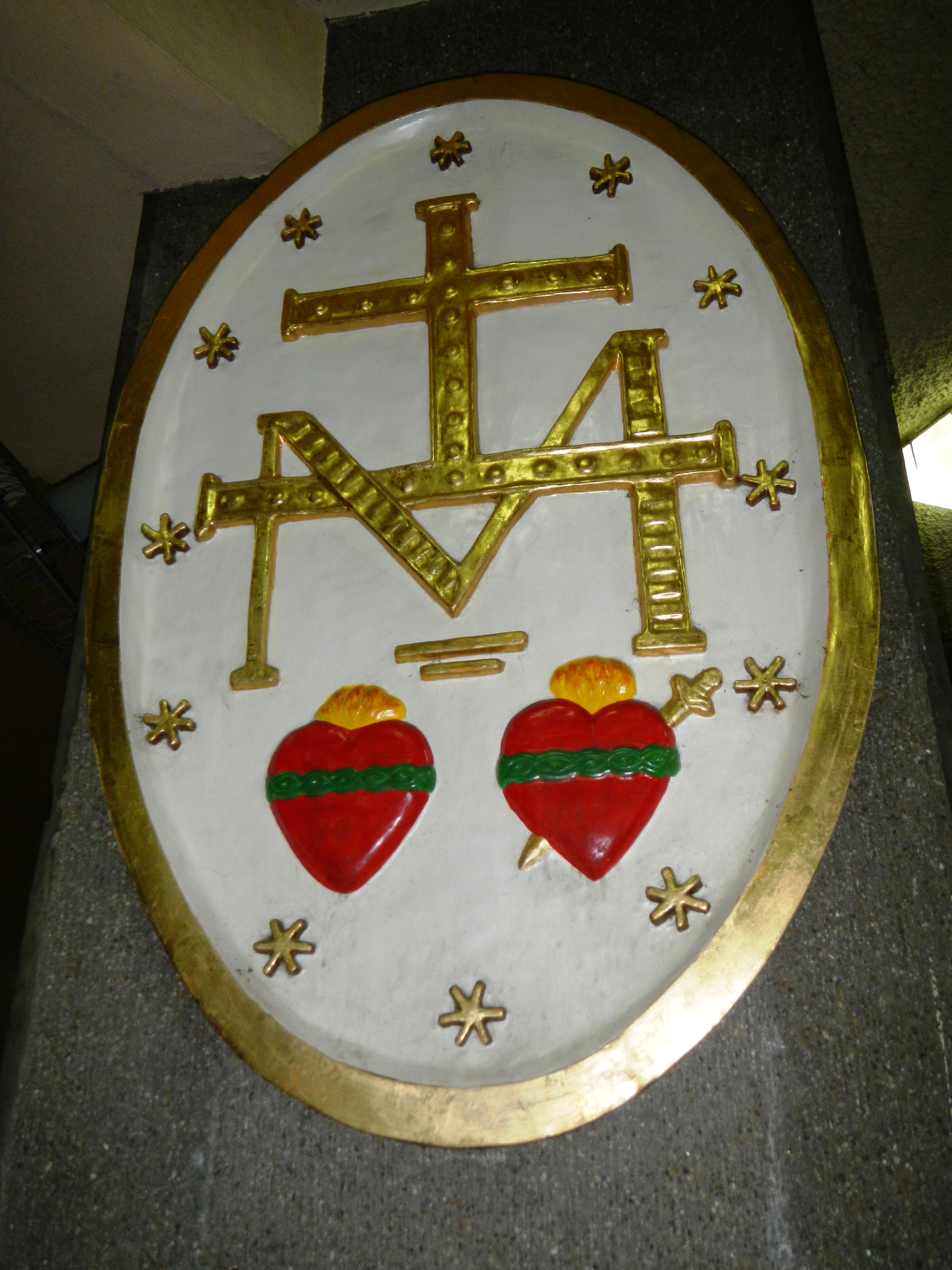 Our Lady of the Miraculous Medal National Shrine and Parish (Sucat, Muntinlupa City) in District 2, Barangay Cupang, Posadas Village, Sucat, Muntinlupa City, [1] National Capital Region 1770.